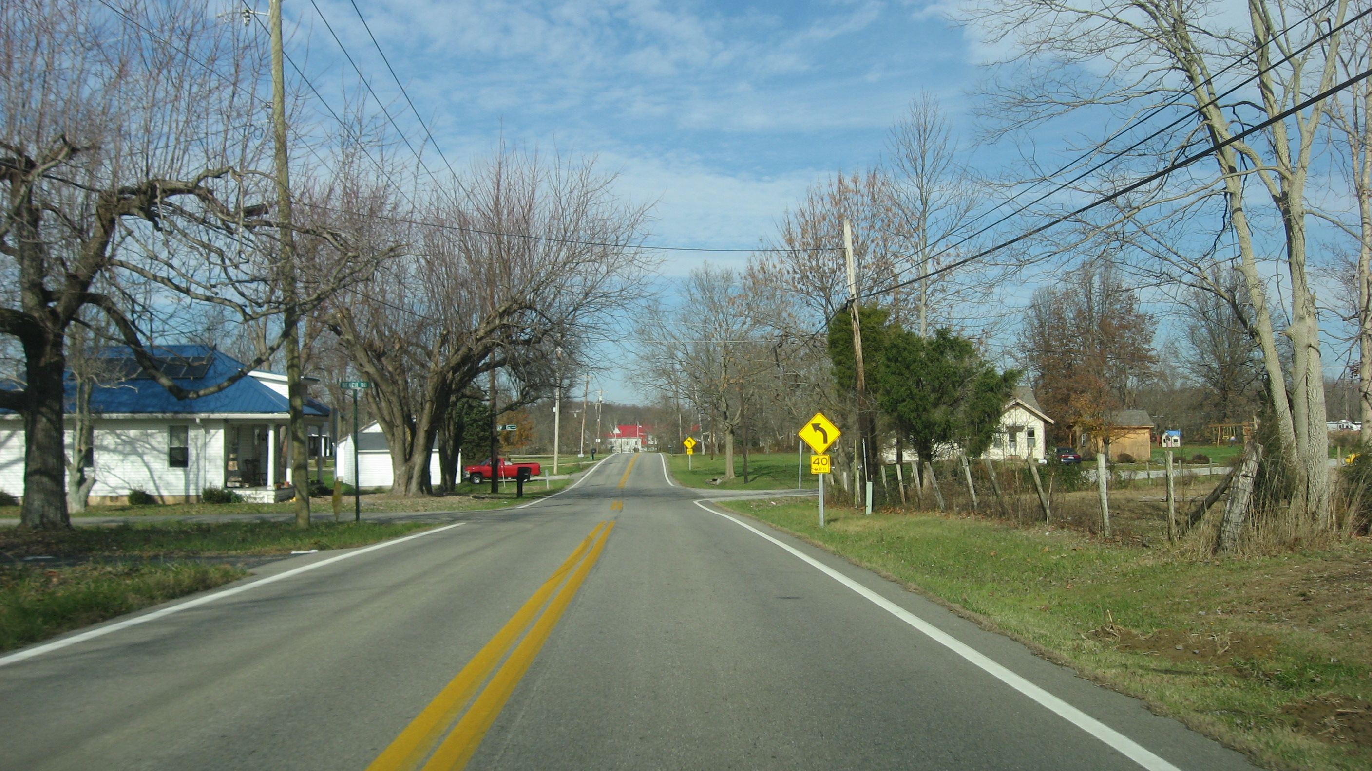 Looking northward along State Route 133 at the unincorporated community of Mount Olive, in far northern Franklin Township, Clermont County, Ohio, United States.